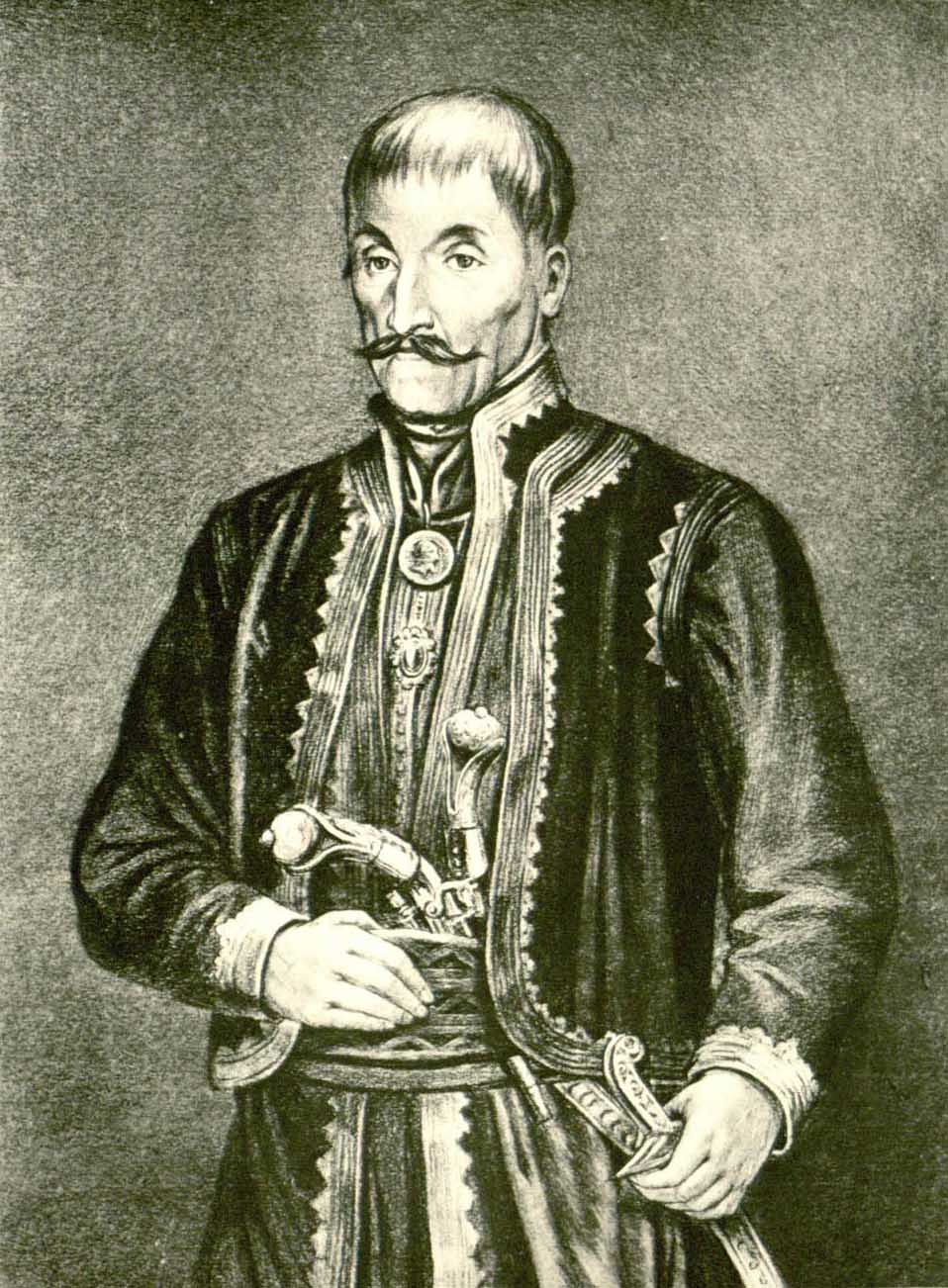 Pop Luka Lazarević (1774 — 1852), Priest, Revolutionary. Reproduction of an original painting.